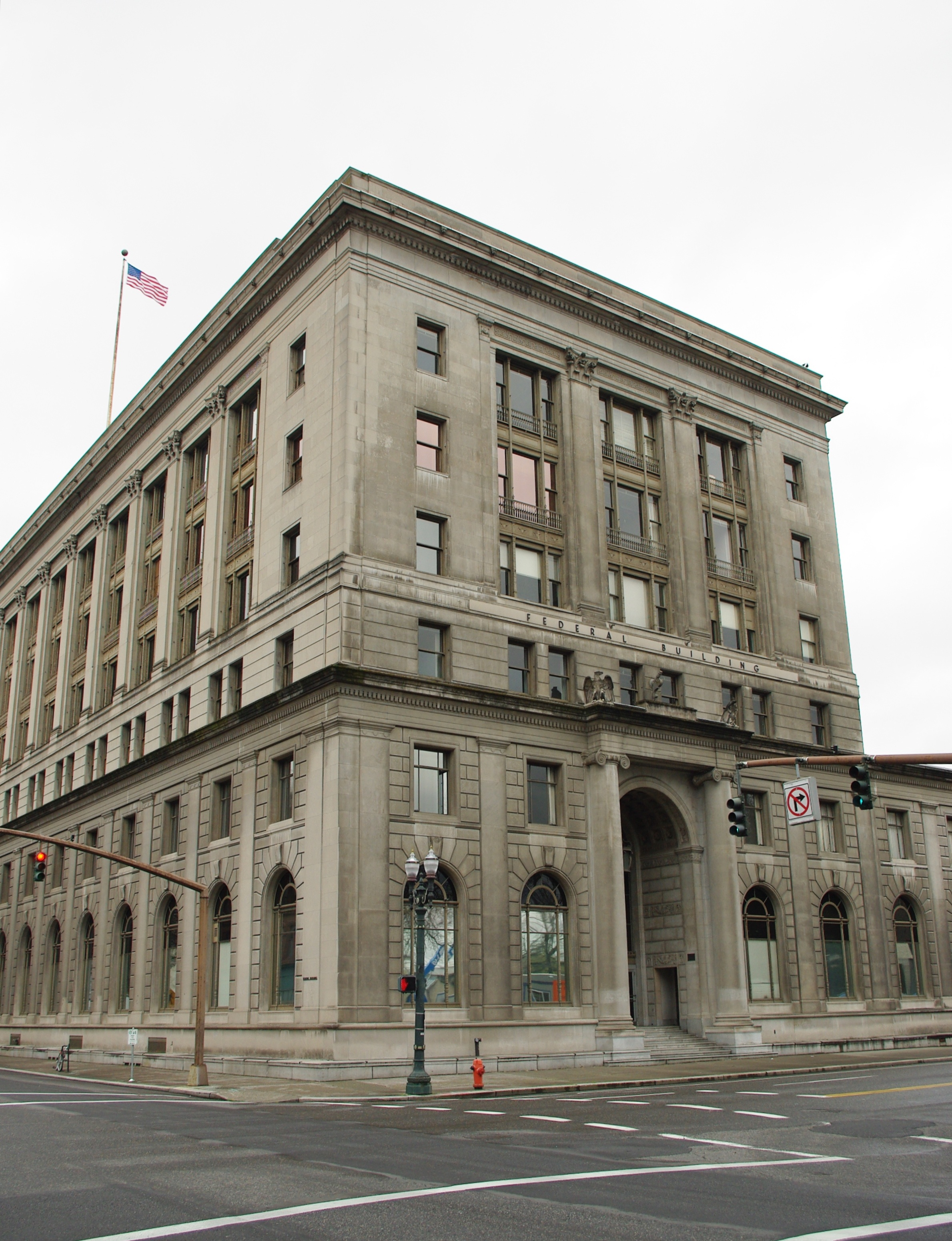 The 511 Federal Building in Portland's Old Town neighborhood. Now part of PNCA.